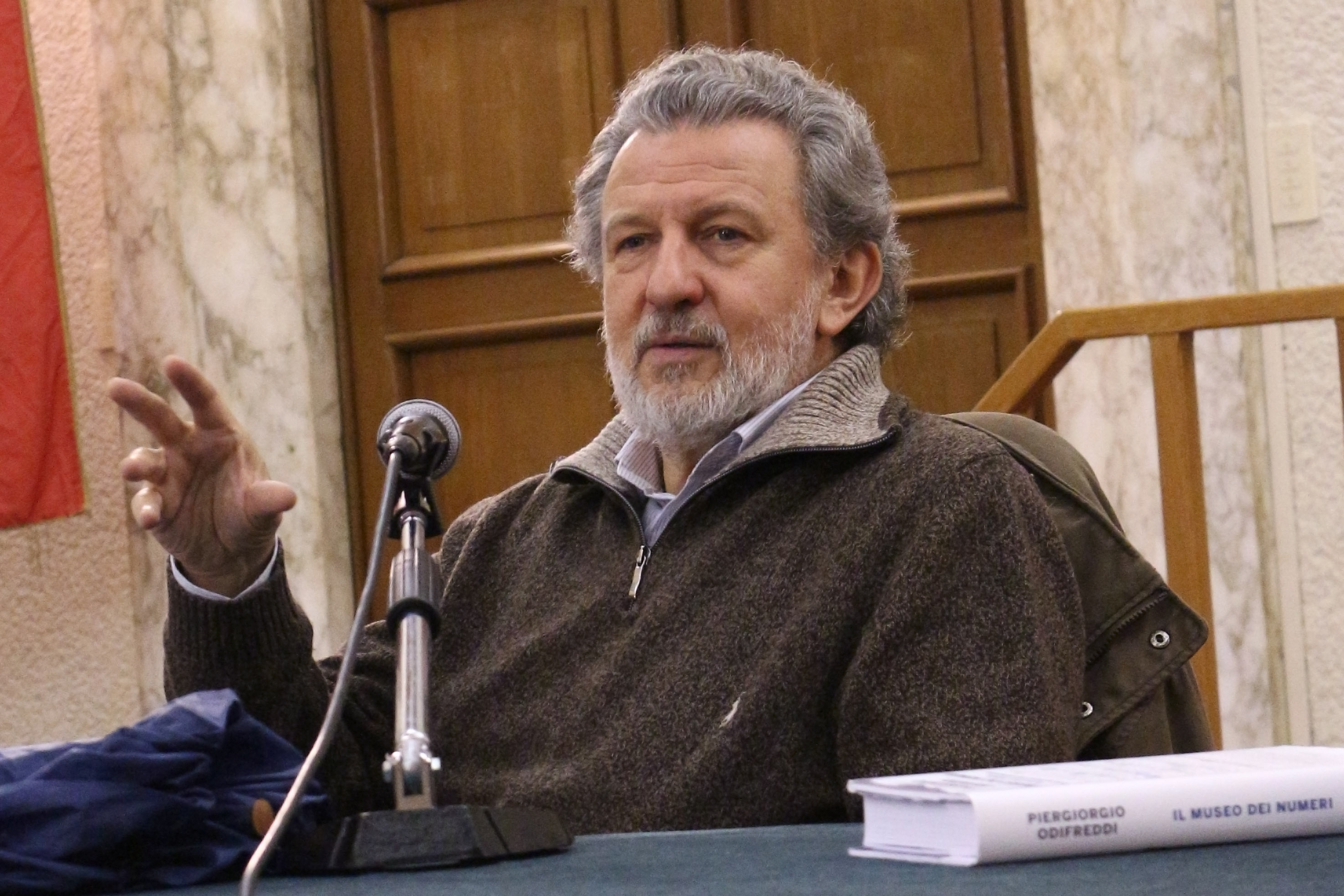 Italian mathematician Piergiorgio Odifreddi in Savona